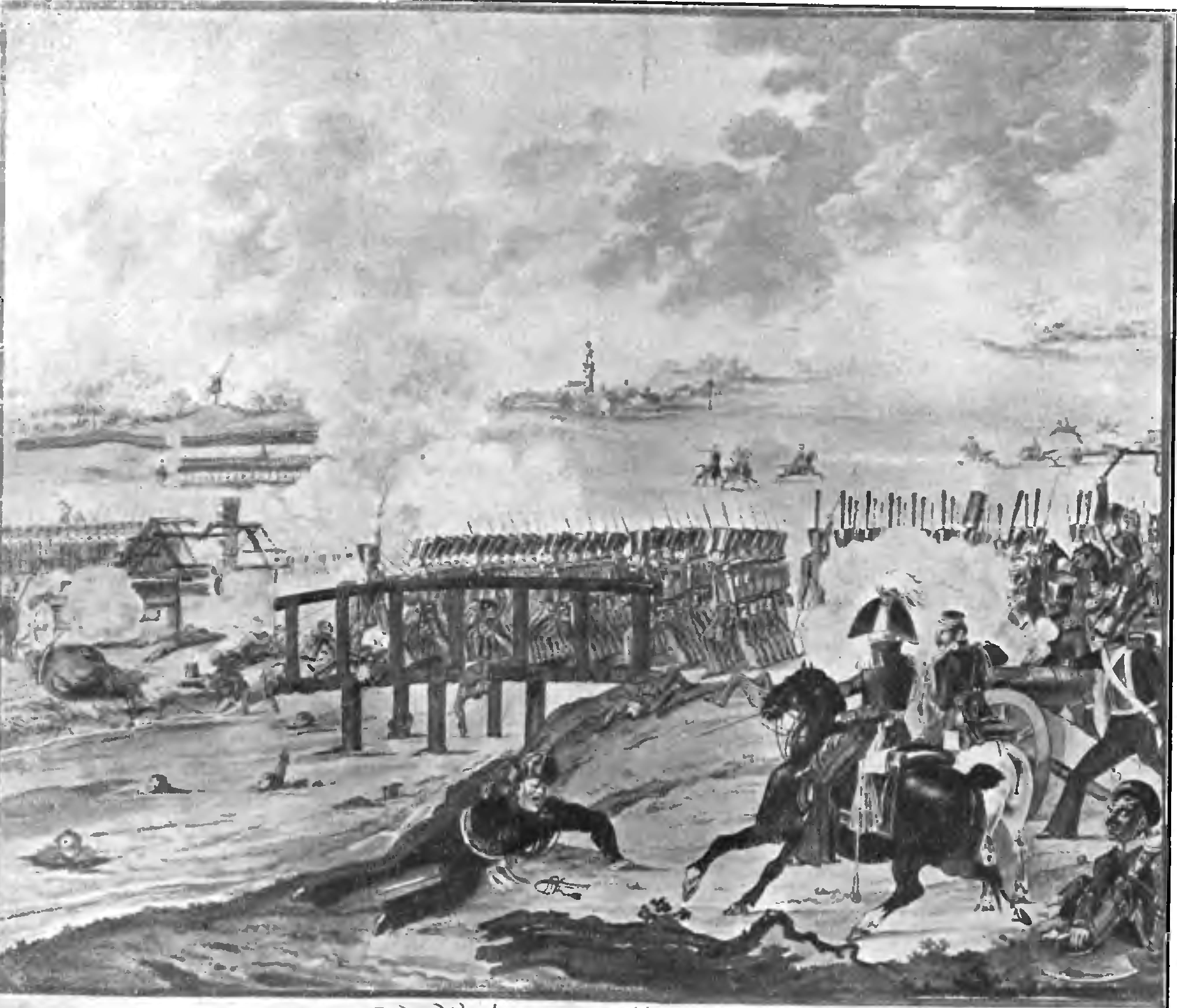 Battle of Liw 1831